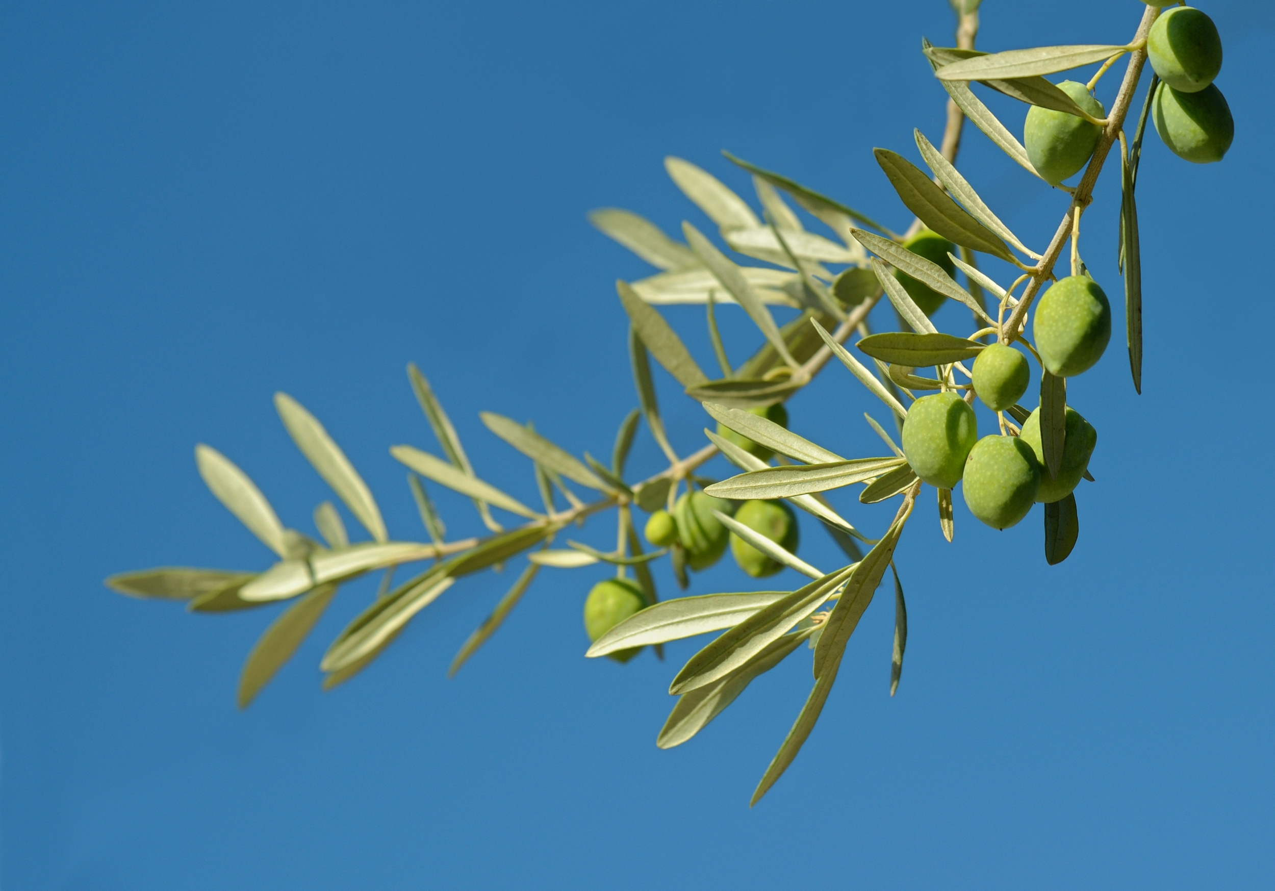 Olive, Rhodos